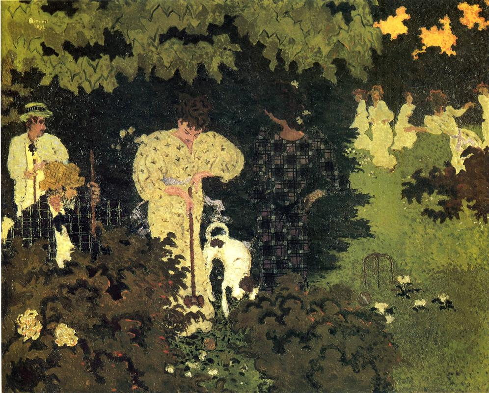 Painting by Pierre Bonnard